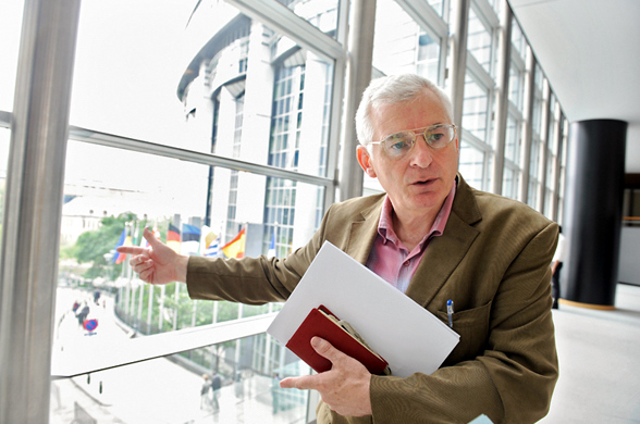 Joe Higgins, politician from the Socialist Party of Ireland.